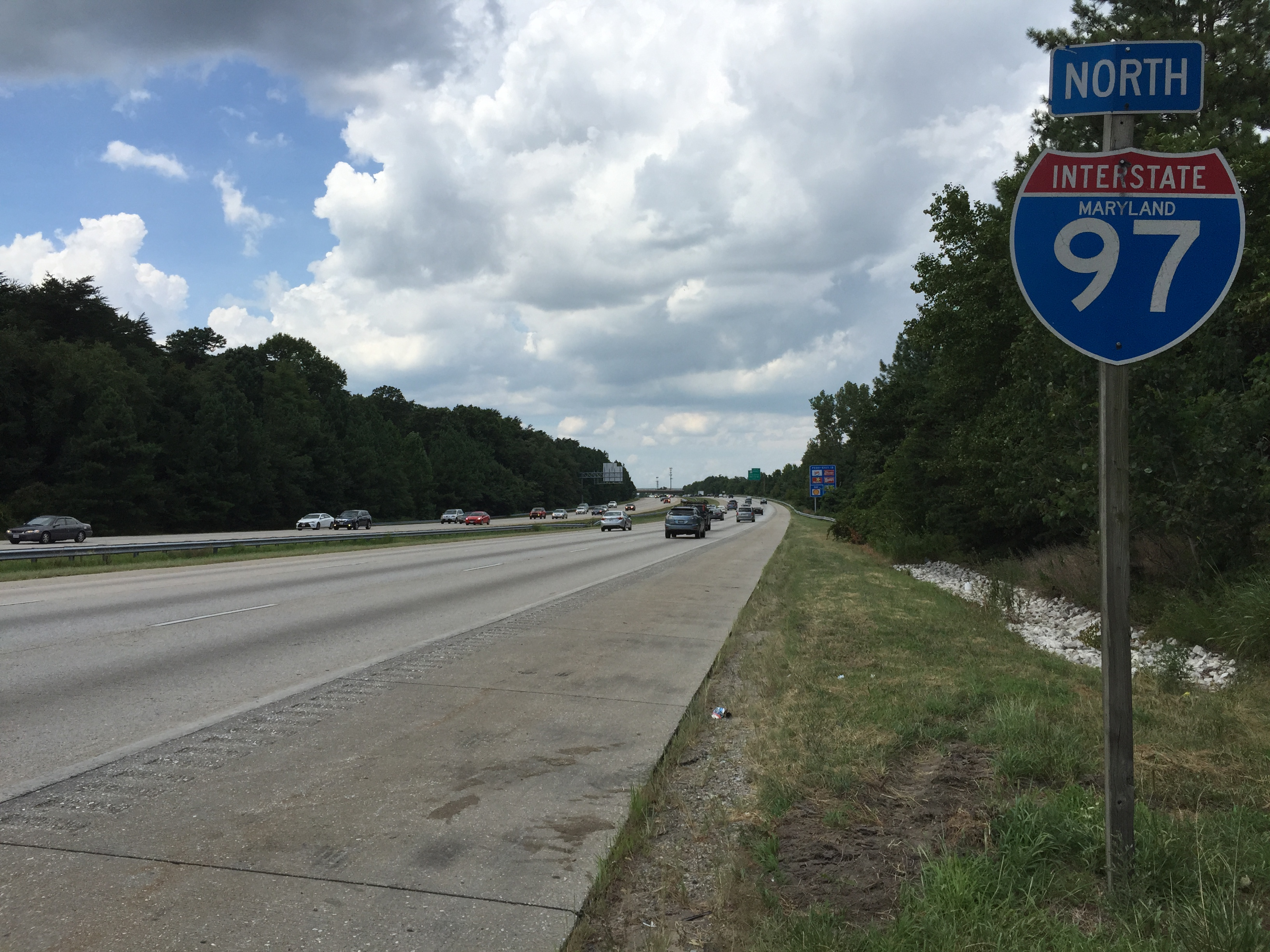 View north along Interstate 97 (Robert Crain Highway) just north of Exit 10 in Severna Park, Anne Arundel County, Maryland